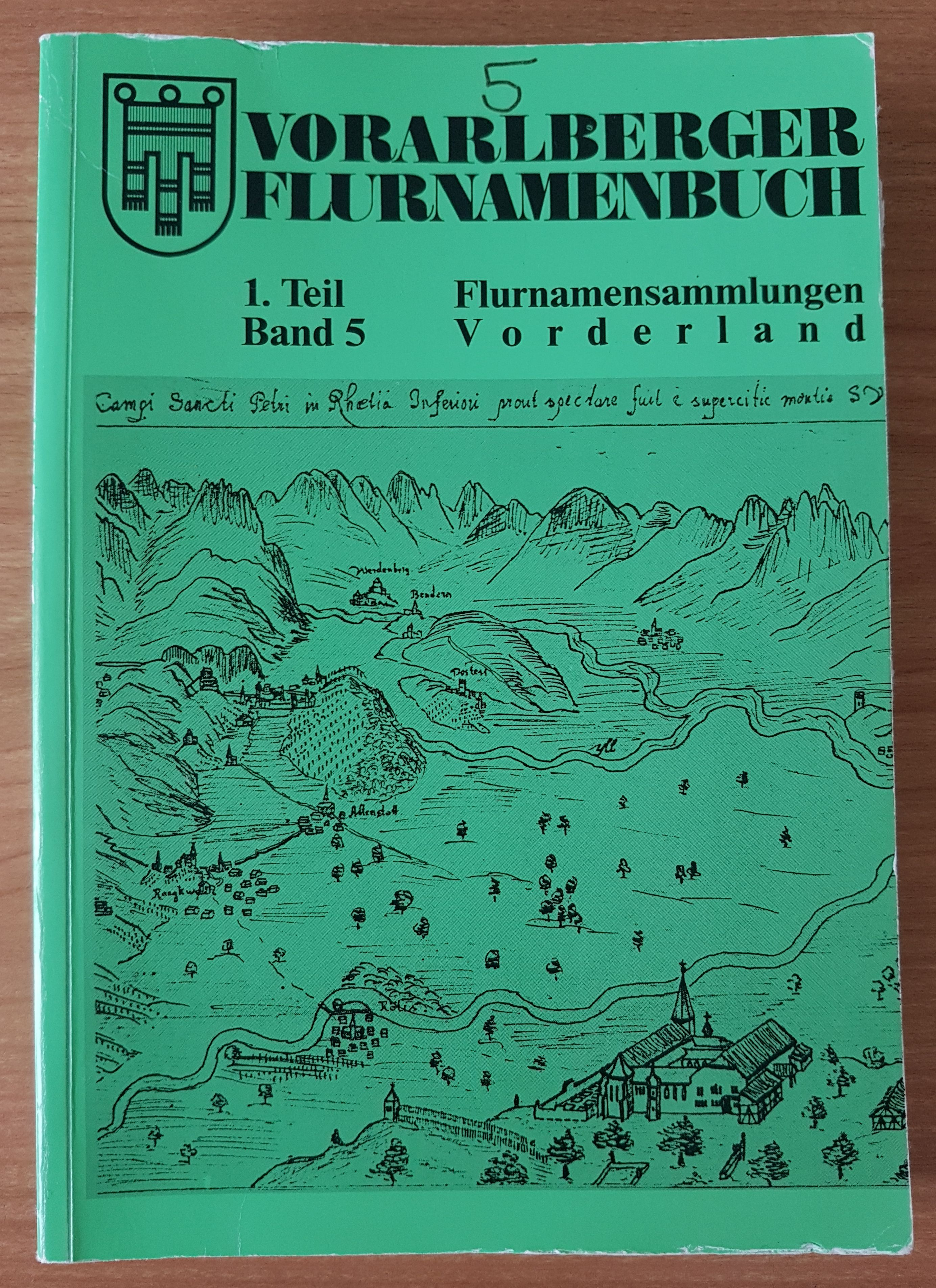 Book cover of the "Vorarlberger Flurnamenbuches" (Book of names of Vorarlberg of meadows, fields or small areas), volume 5, by Werner Vogt. Personal book from Werner Vogt.